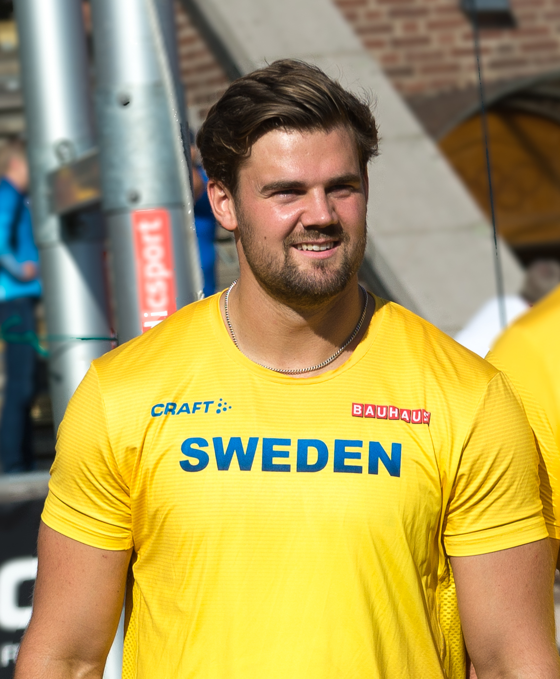 Simon Pettersson during the Finland-Sweden athletics international 2019 at the Stockholm Stadium in August 2019.